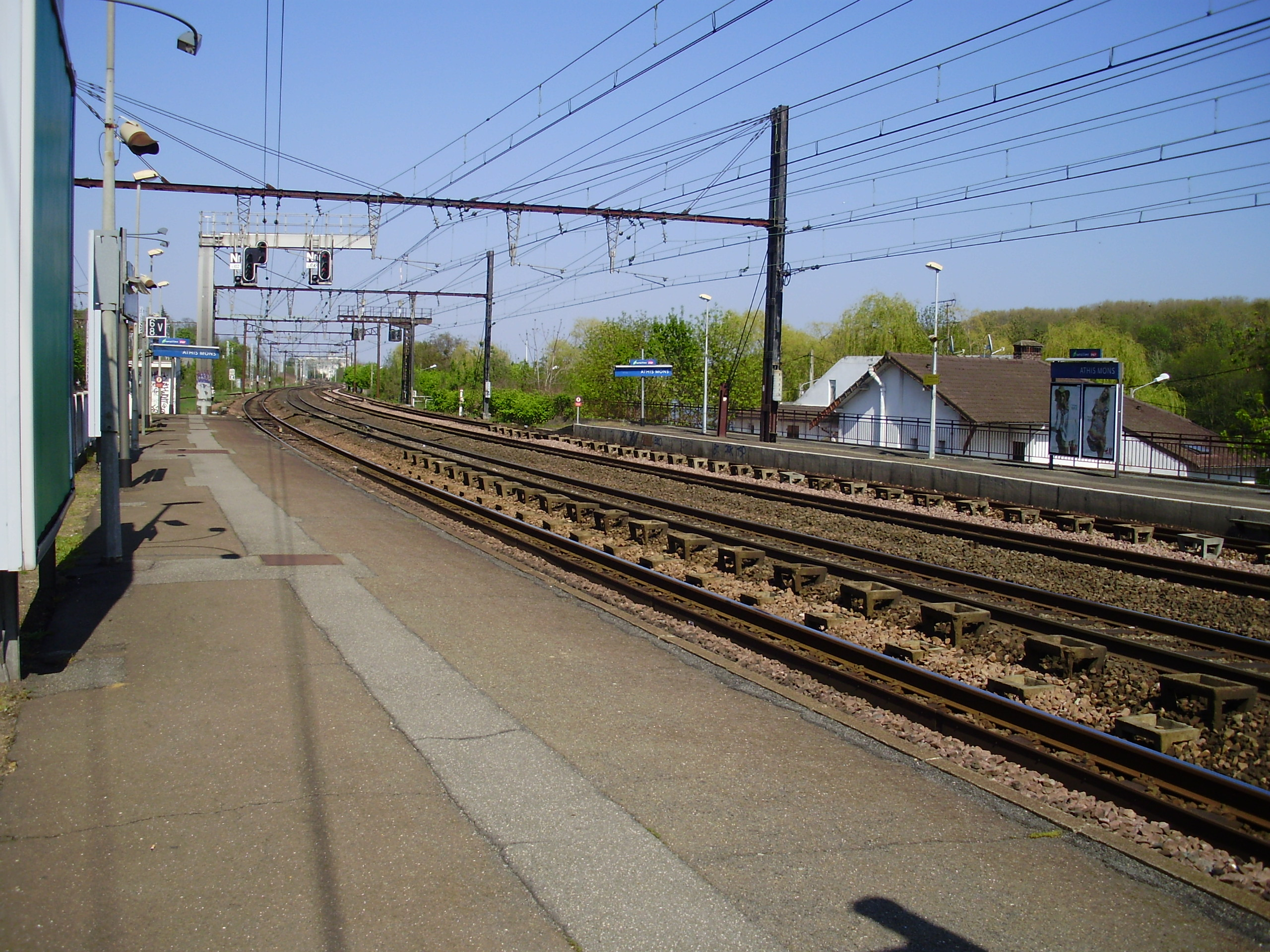 Platforms of Athis-Mons station, Essonne, France (view towards Paris)